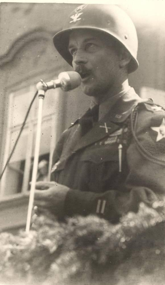 Philip De Witt Ginder (September 19, 1905 - November 7, 1968) was an American career soldier who rose to the rank of Major General during the Korean War.